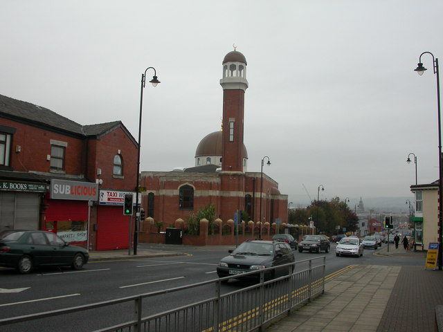 Bolton, mosque Zakarriya Central Mosque, on Derby Street, between Peace and Cannon Street.